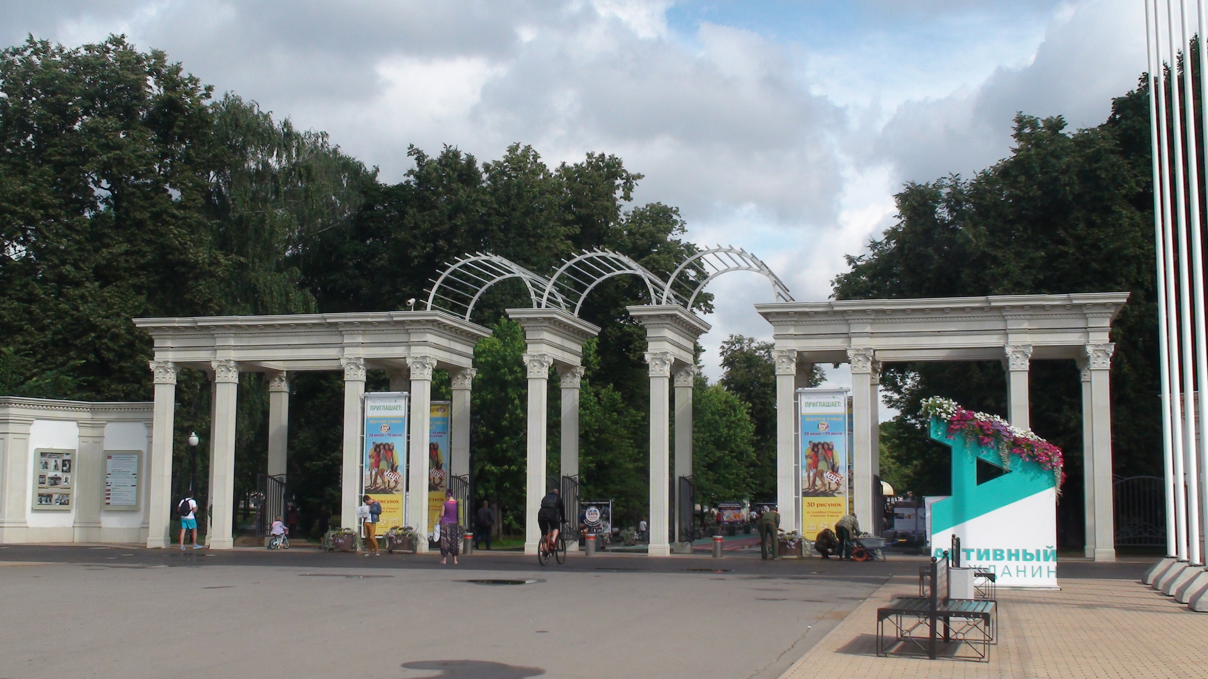 Район Москвы Сокольники